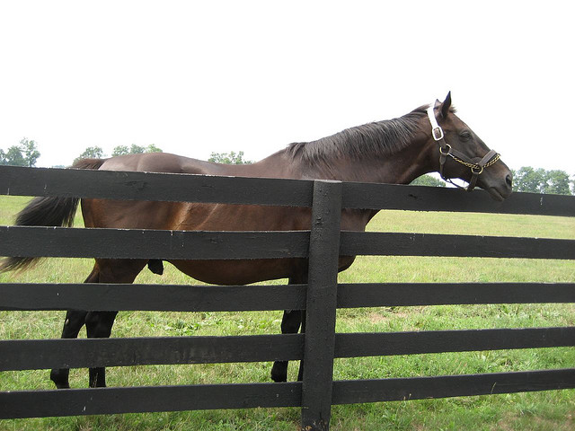 Retired racehorse and prolific sire Dynaformer at Three Chimneys Farm, Midway, KY